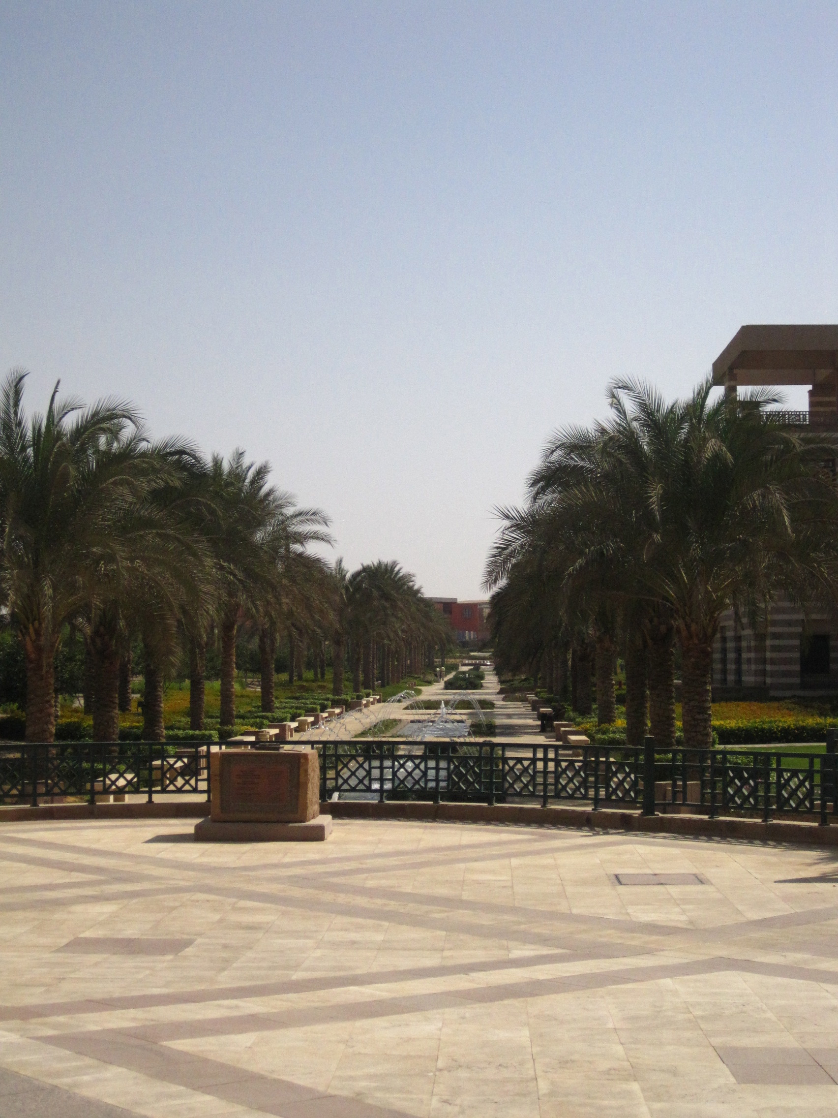 AUC.LongWalkway